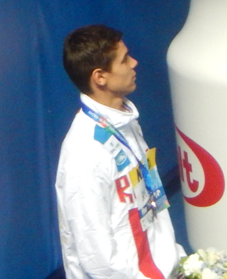 Medallists at the men's 200 metres backstroke in Kazan 2015